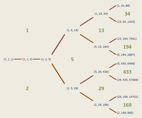 The first triples of Markoff tree